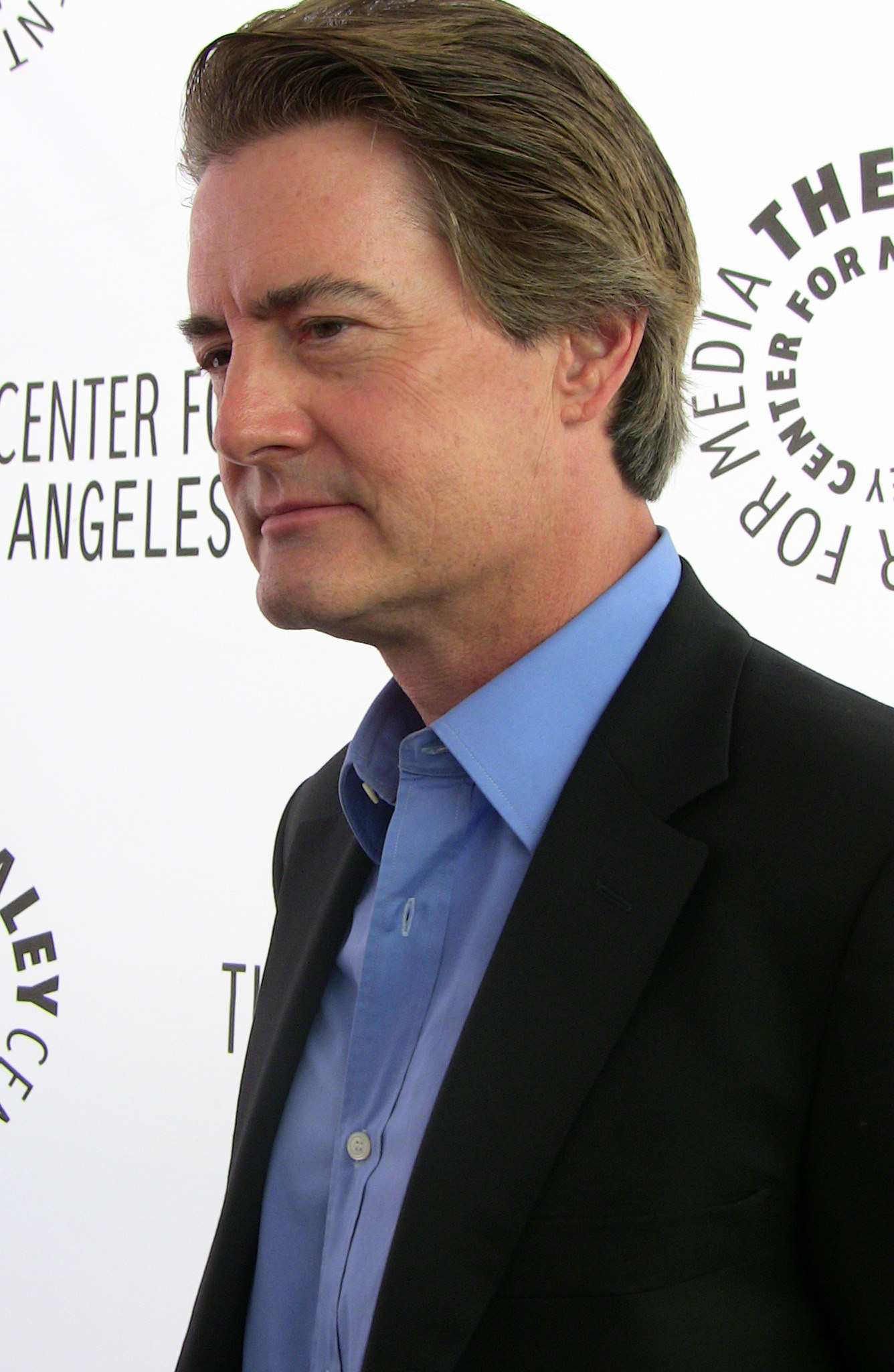 Actor Kyle MacLachlan at Desperate Housewives Paley Fest, William S. Paley Center, Beverly Hills, California